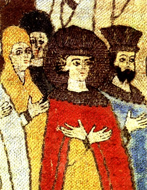 Sophia Palaiologina